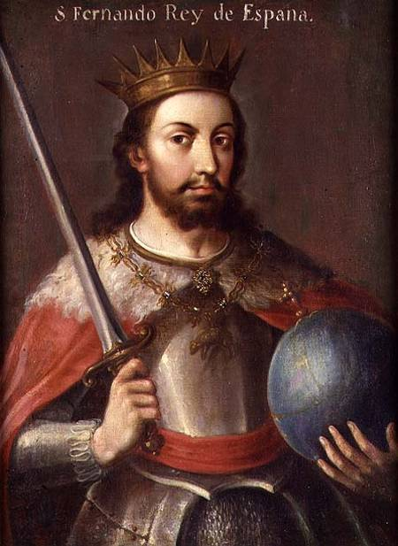 Saint Ferdinand III of Castile.